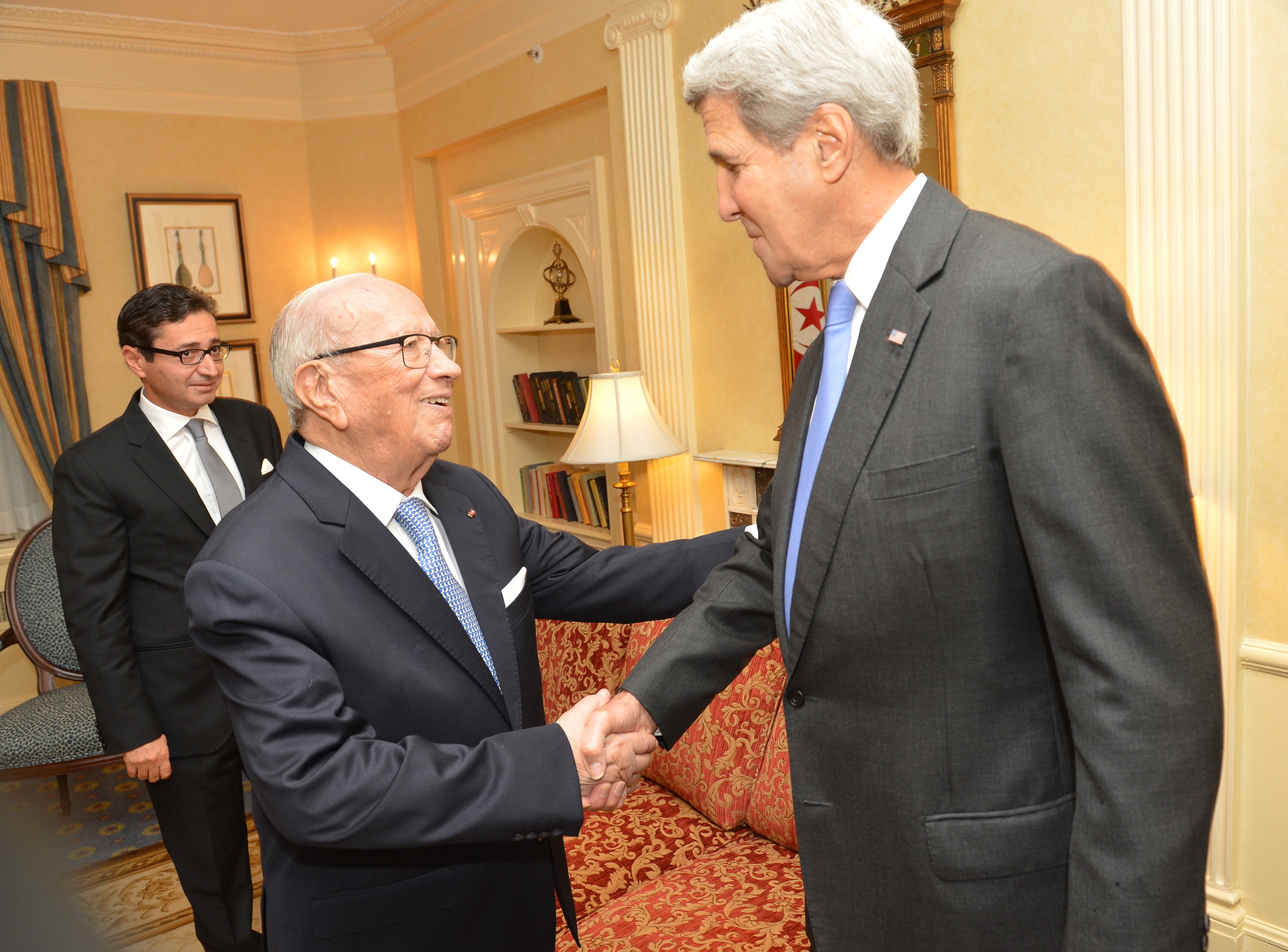 U.S. Secretary of State John Kerry meets with Tunisian President Beji Caid Essebsi in New York City, New York on September 19, 2016. [State Department Photo/Public Domain]